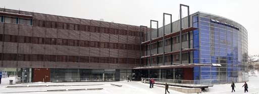 Viikki info center & science library